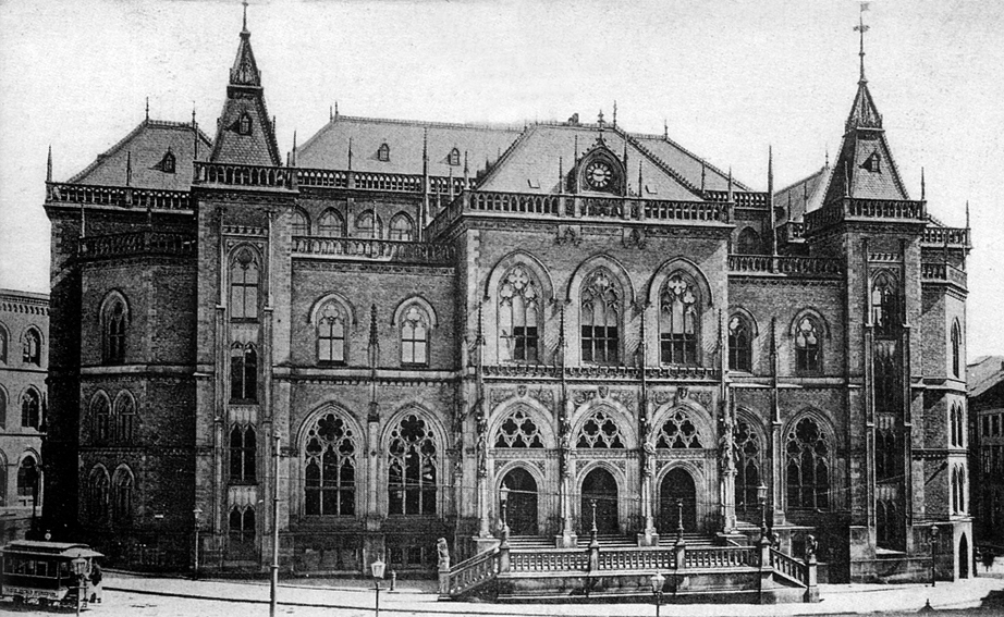 The building Neue Börse (“New Stock Exchange”), at the Marketplace in Bremen, Germany, in the late 19th century. Built 1861–1864 by Heinrich Müller and destroyed in an air raid at the 20th of december 1943